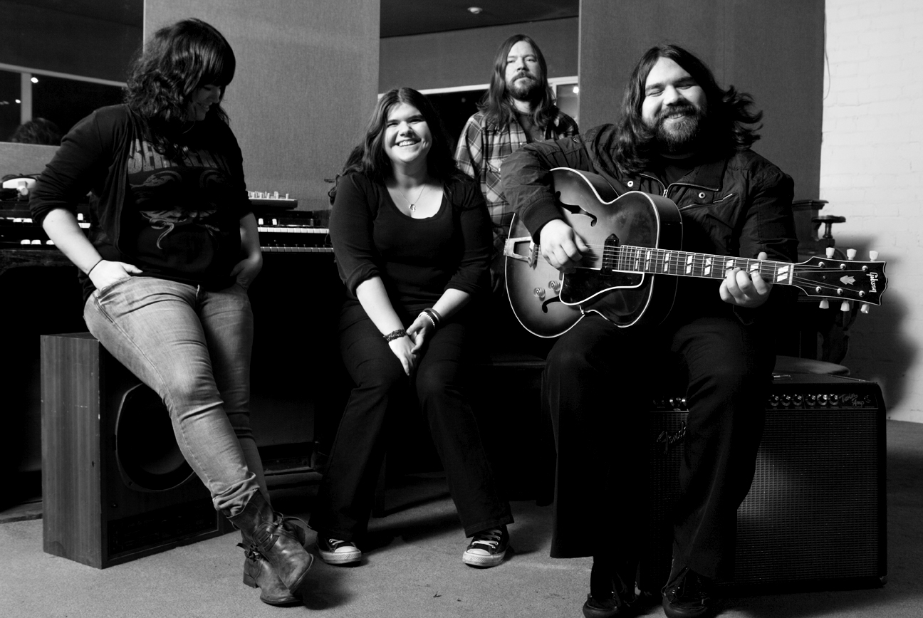 Magic Numbers_02_Livingstone Studios_04_11_09